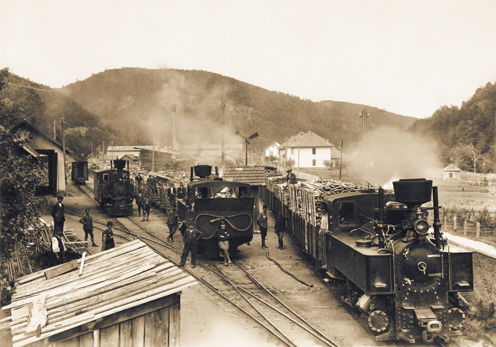 Forest railway operations of Giuseppe Feltrinelli & Co. can be seen here at Podgrab near Sjetlina. The company's steam-powered sawmill was located just farther ahead as seen in this view towards Ustiprača. The state-operated Eastern Railway ran in the hills to the left, and the forest railway was connected to it, with the branches running off to the north and south of the main line. The engine on the right is a Krauss built 0-8-0 (probably Krauss Linz 6702/1919).